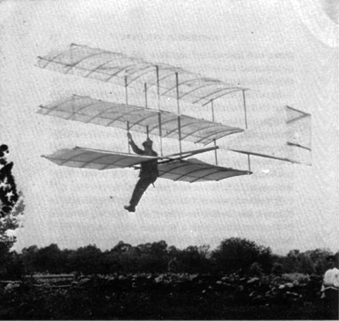 Made it myself from a more than a hundred years old original which should be in the public domain and is used on many web sites. I magnified, brightened up the dark areas and increased sharpness. 500*440 pixels. There is serious doubt, that this picture was actually made in flight